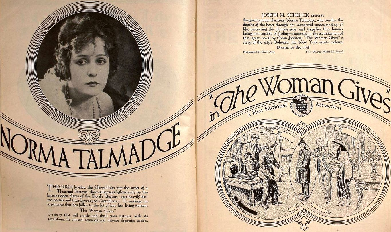 Ad for the American film The Woman Gives (1920) with Norma Talmadge, on pages 3234 and 3235 of the April 10, 1920 Motion Picture News.